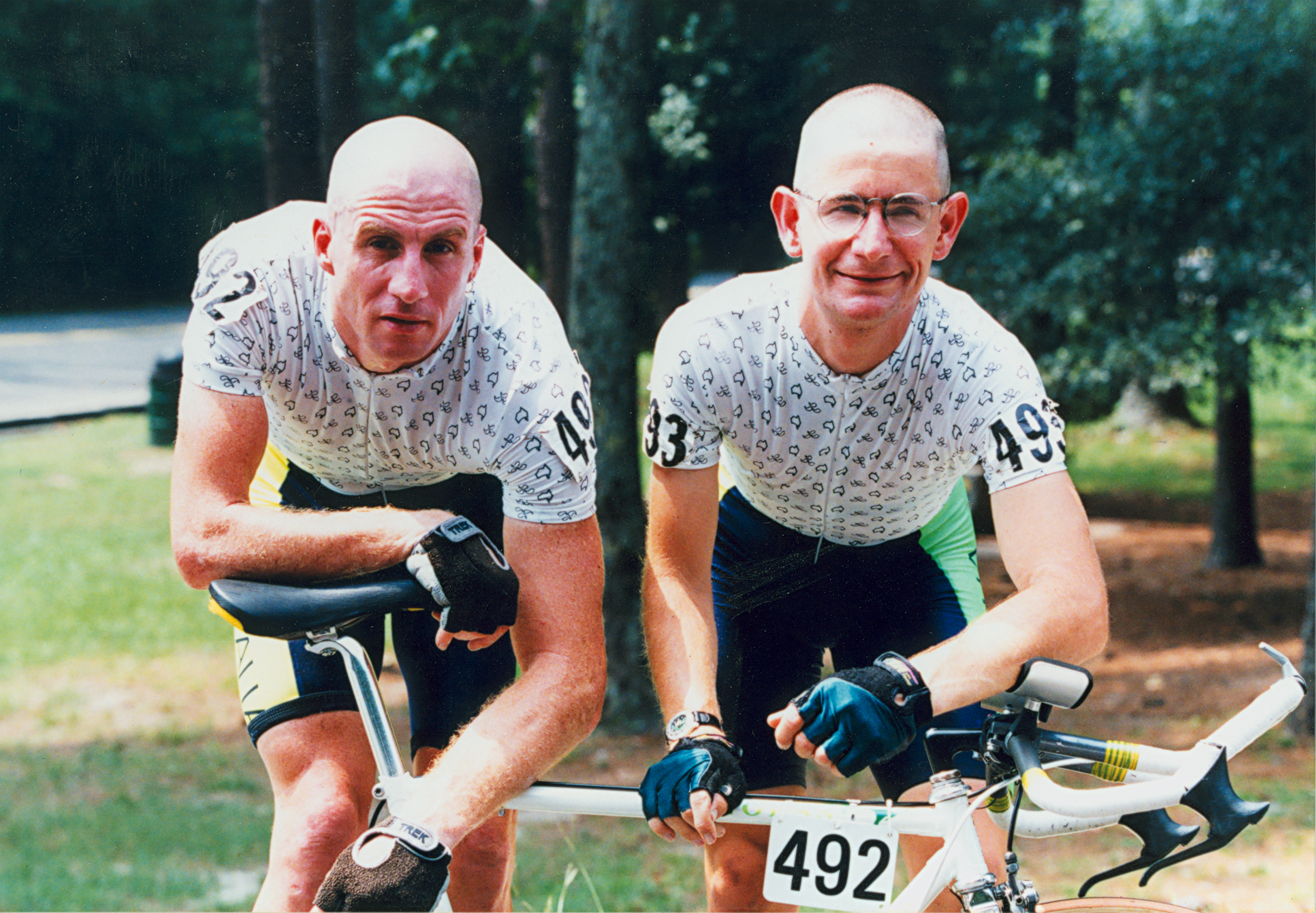 Australian cyclists Peter Homann (left) and Chris Scott at the Atlanta 1996 Paralympic Games.